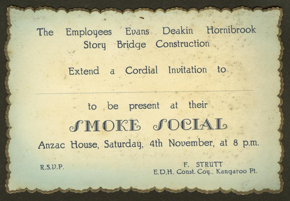 Story Bridge Smoke Social invitation card, 1939 Deckle-edged invitation card to a Smoke Social to celibrate the completion of the Story Bridge construction issued by the contractors, Evans, Deakin Hornibrook Story Bridge Construction (Group). (Description supplied with photograph.)Story Bridge in Brisbane was built to span the Brisbane River from the city to Kangaroo Point. It was named in honour of Mr J. D. Story the Public Service Commissioner. Design of the bridge began in early January 1934. The Bridge Board, elected Dr. J.J.C. Bradfield as the consulting engineer.The construction of the cantilever bridge began in 1935 and was completed and opened to traffic in July 1940. The length of bridge including the approaches is 1375 m. More than 95% of the steel was manufactured in Australia and the bridge was constructed by Evans, Deakin-Hornibrook Construction Co. Pty Ltd.